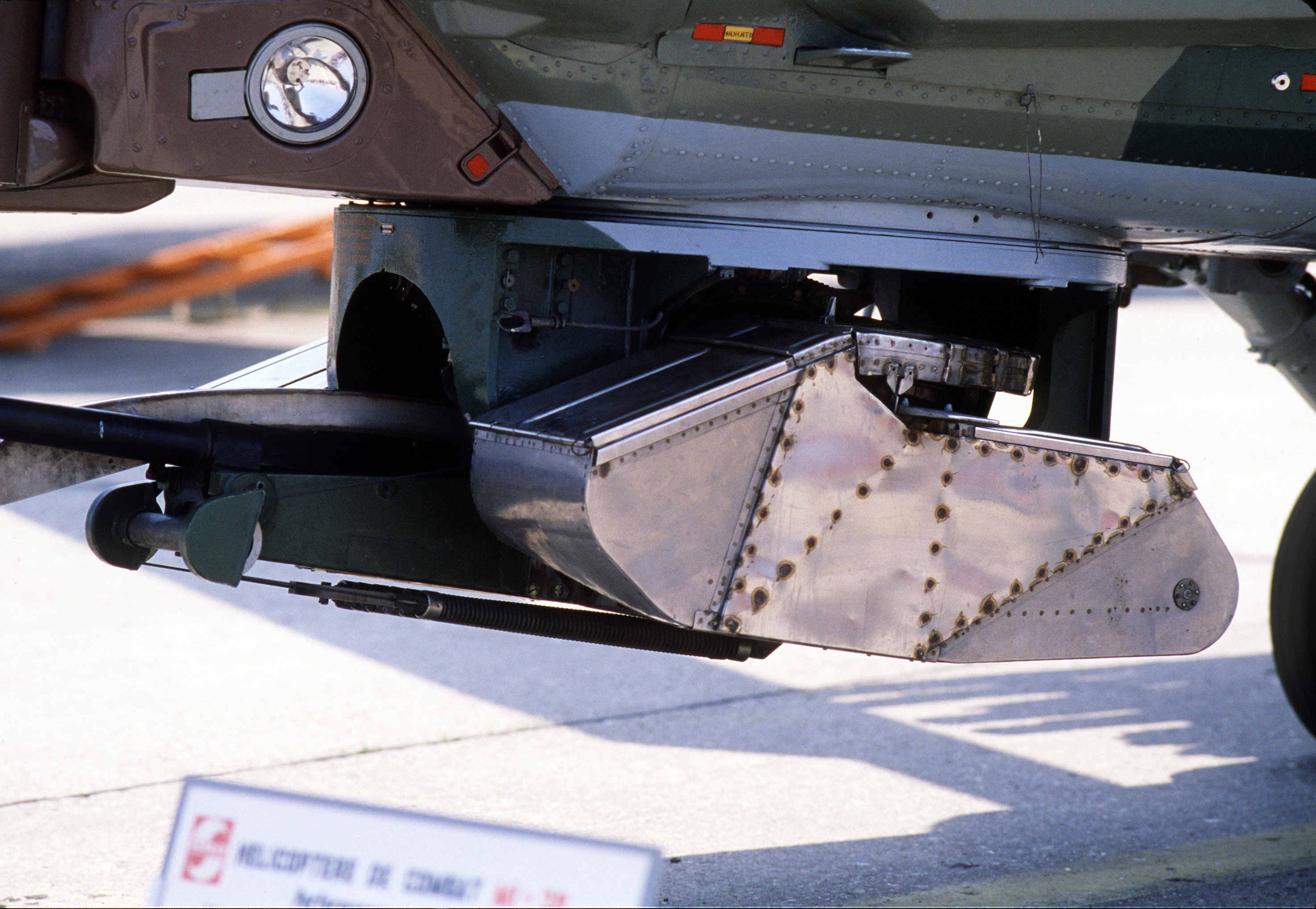 A partial close-up view of the underside of a Soviet Mi-28 Havoc helicopter on display at the 38th Paris International Air and Space Show at Le Bourget Airfield reveals its chin-mounted machine gun. Camera Operator: MASTER SGT. DAVE CASEY Date Shot: 13 Jun 1989